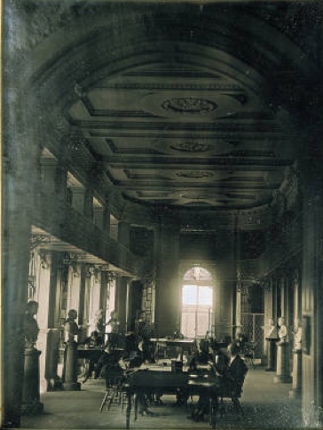 Boston Atheneum, ca.1855